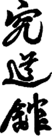 Kyudokan logo/kanji. Usually embroidered into the karate gi of students of the Kyudokan School.